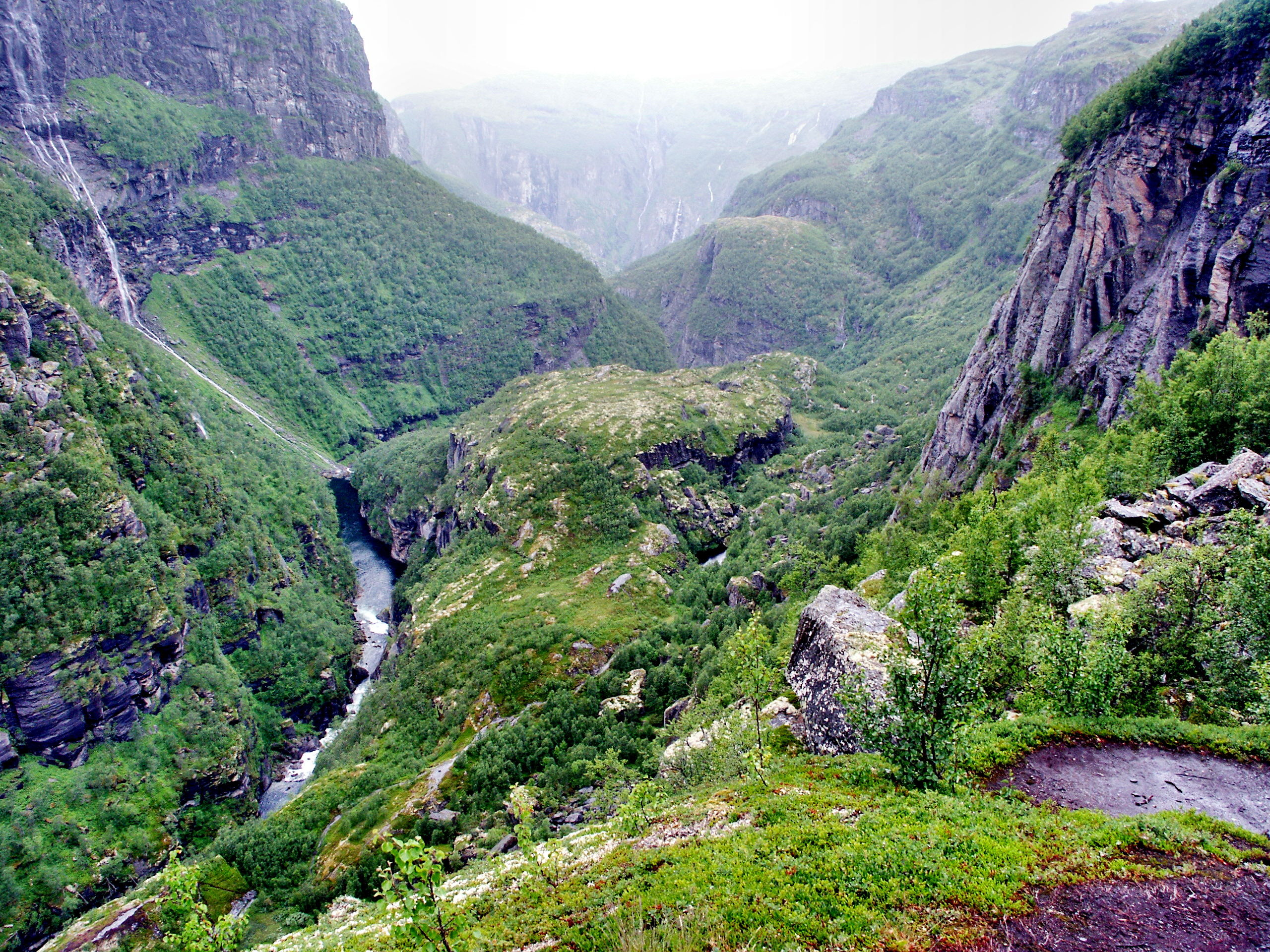 Wiew from Bjødnastigen track in Aurlandsdalen, Aurland municipality, Sogn og Fjordane county, Norway.